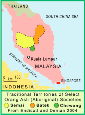 it's about where Semai people live.